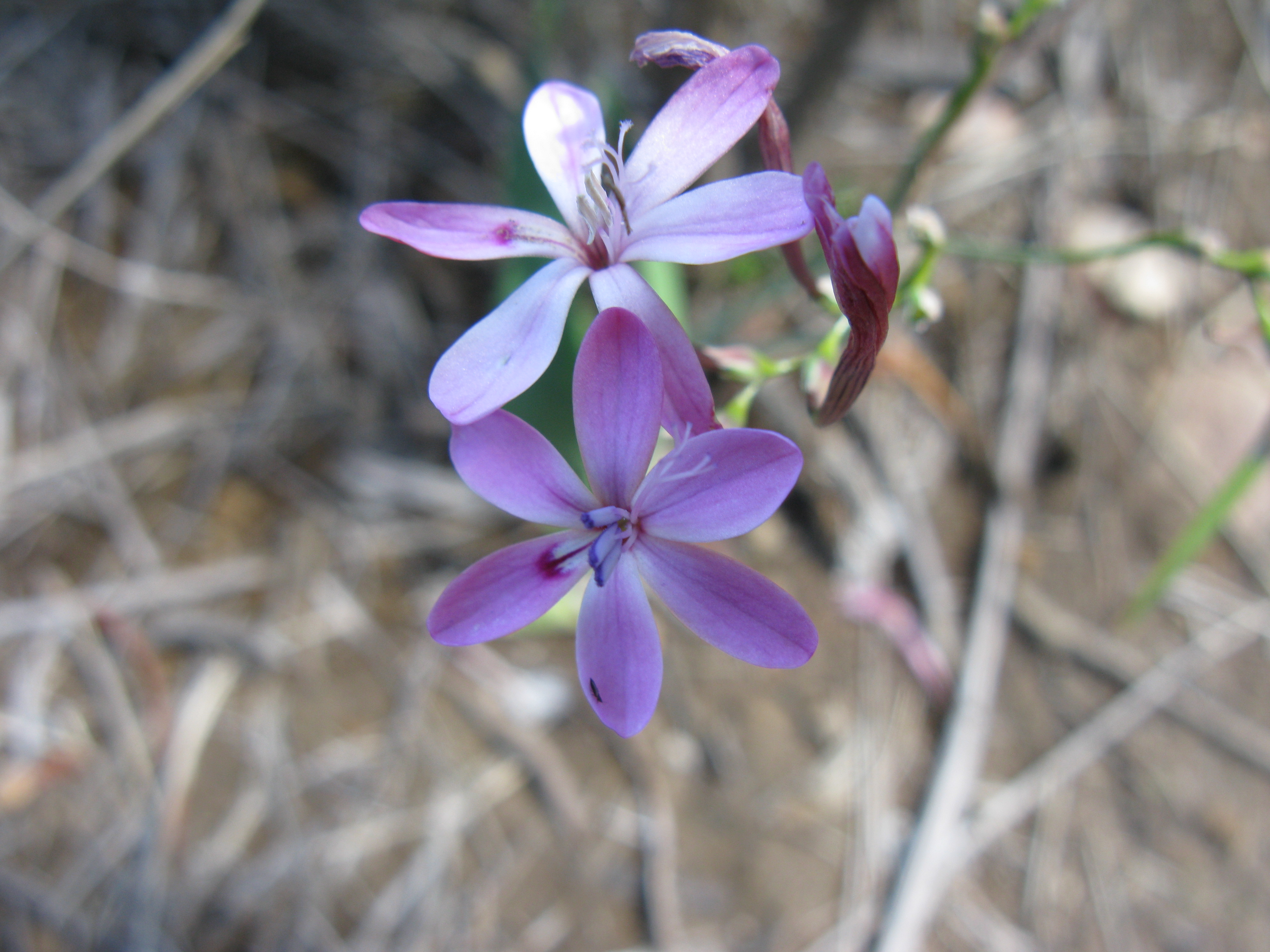 Lapeirousia species Flowering near Uniondale South Africa